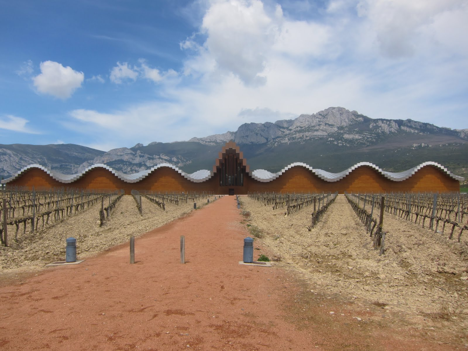 Ysios Winery near Laguardia, Álava, Spain